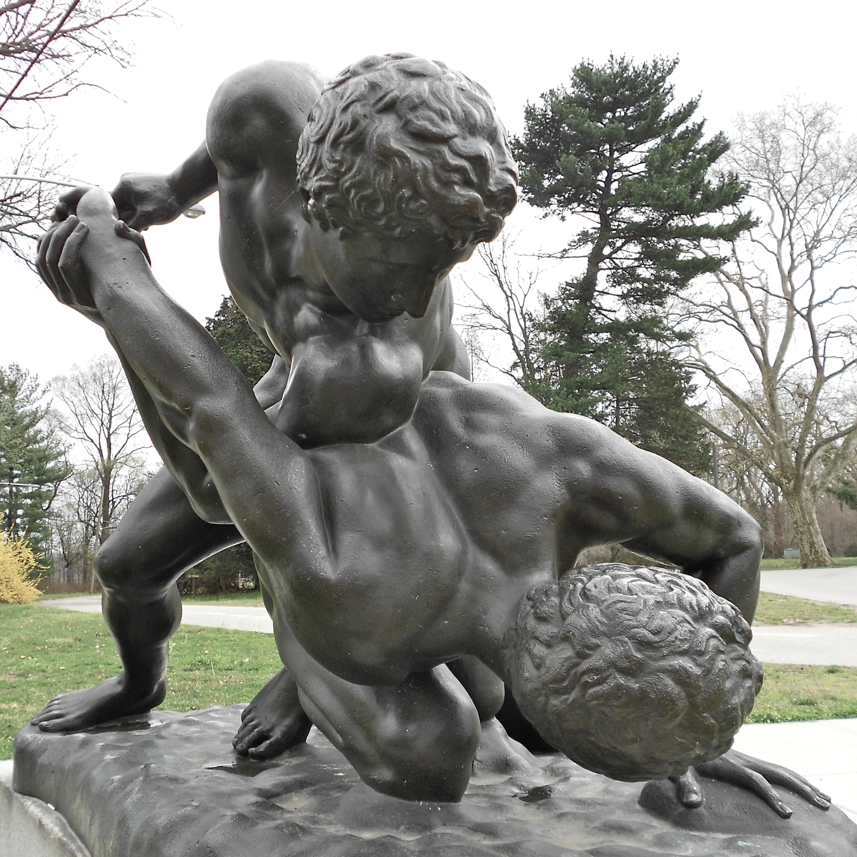 Wrestlers sculpture - cast from ancient statue now in Florence. Cast 1885, now in Fairmount Park at the Horticultural Center, Philadelphia